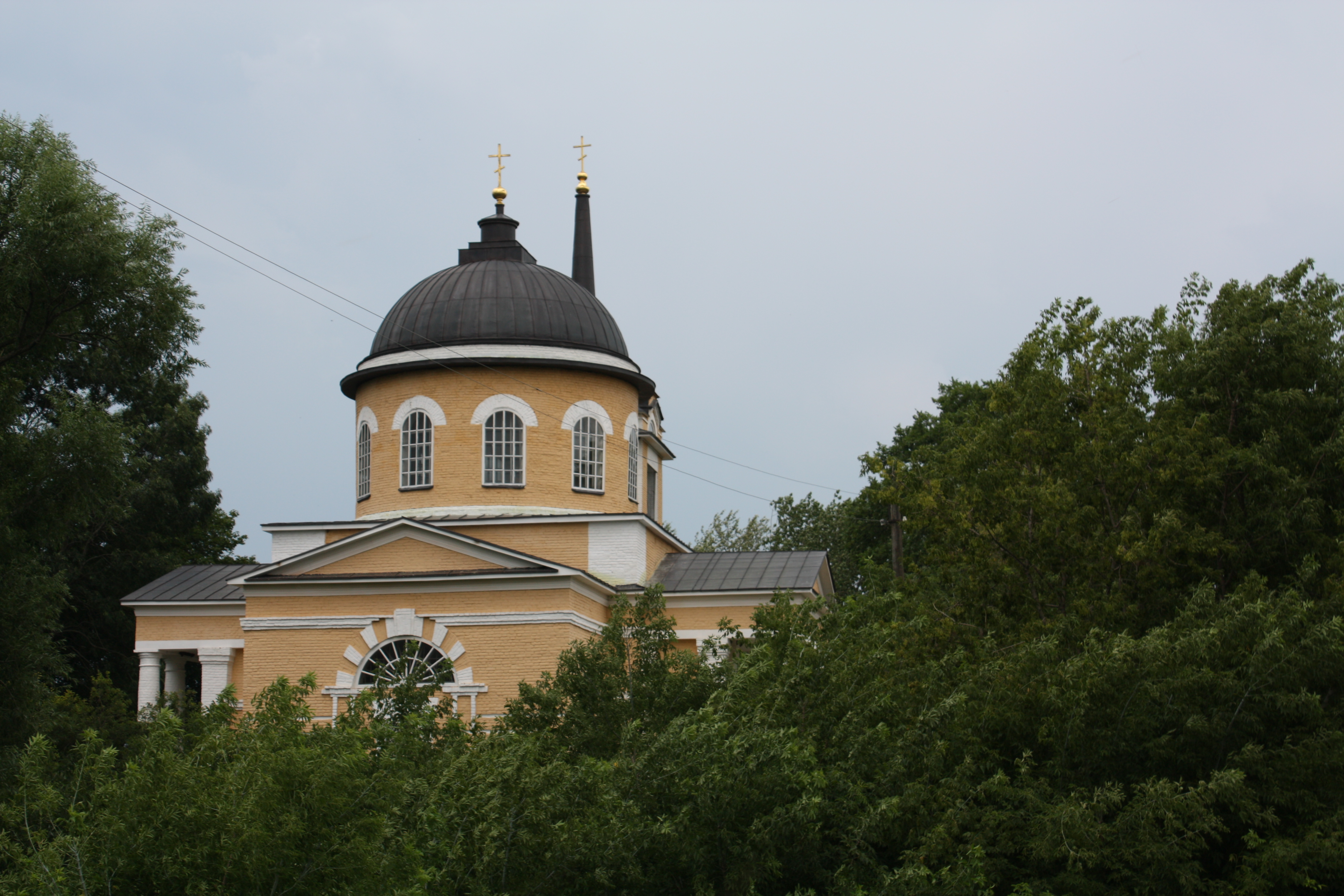 St. Michael church in Tarkhany.